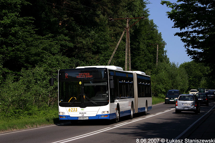 MAN NG 313 Lion's City G bus (#6233) in Gdynia, Poland. Built 2006, PKS Wejherowo operator.